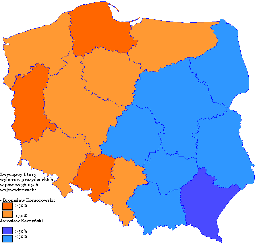 Results of 1st round of presidental election in Poland